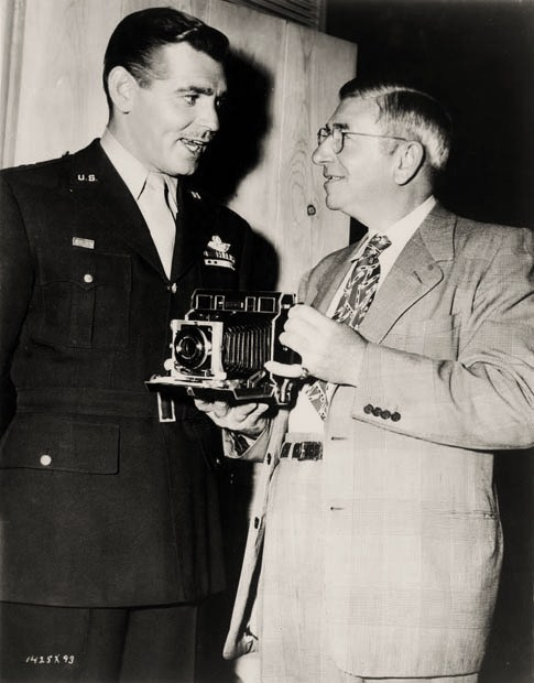 Clark Gable and head of the camera department John Arnold on the set of Command Decision (1948) - publicity still